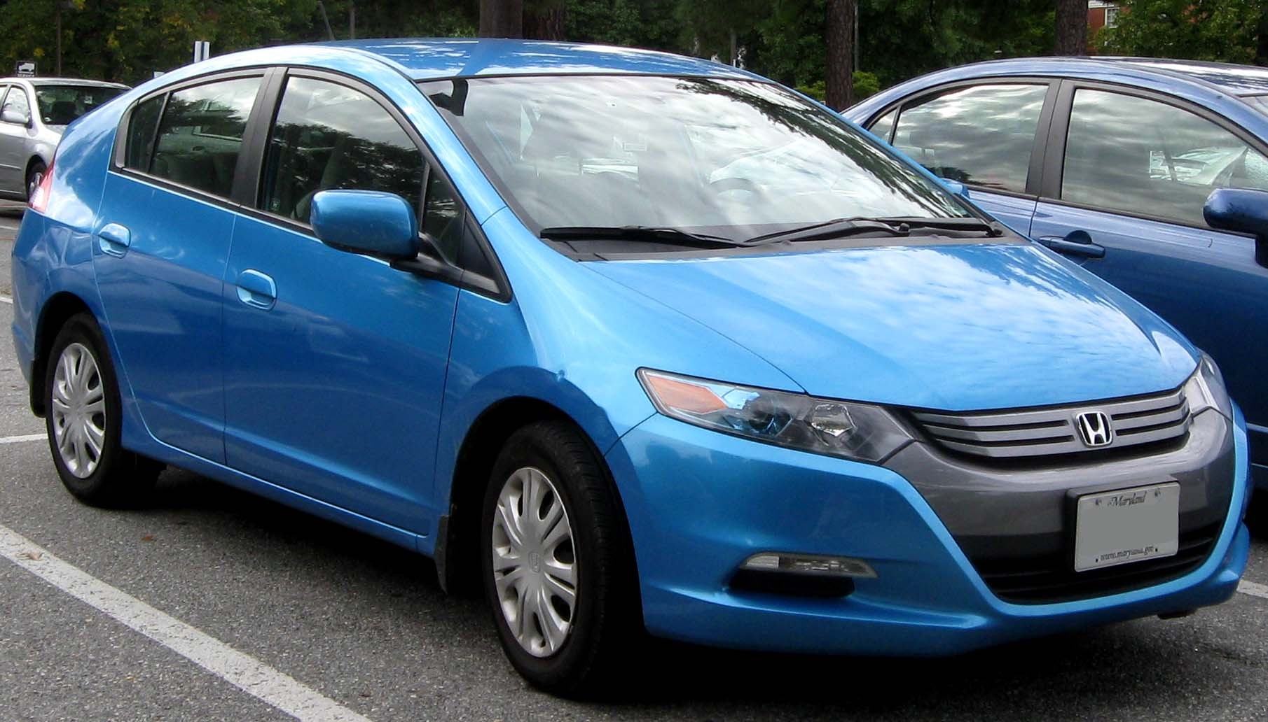 2010 Honda Insight photographed in College Park, Maryland, USA.